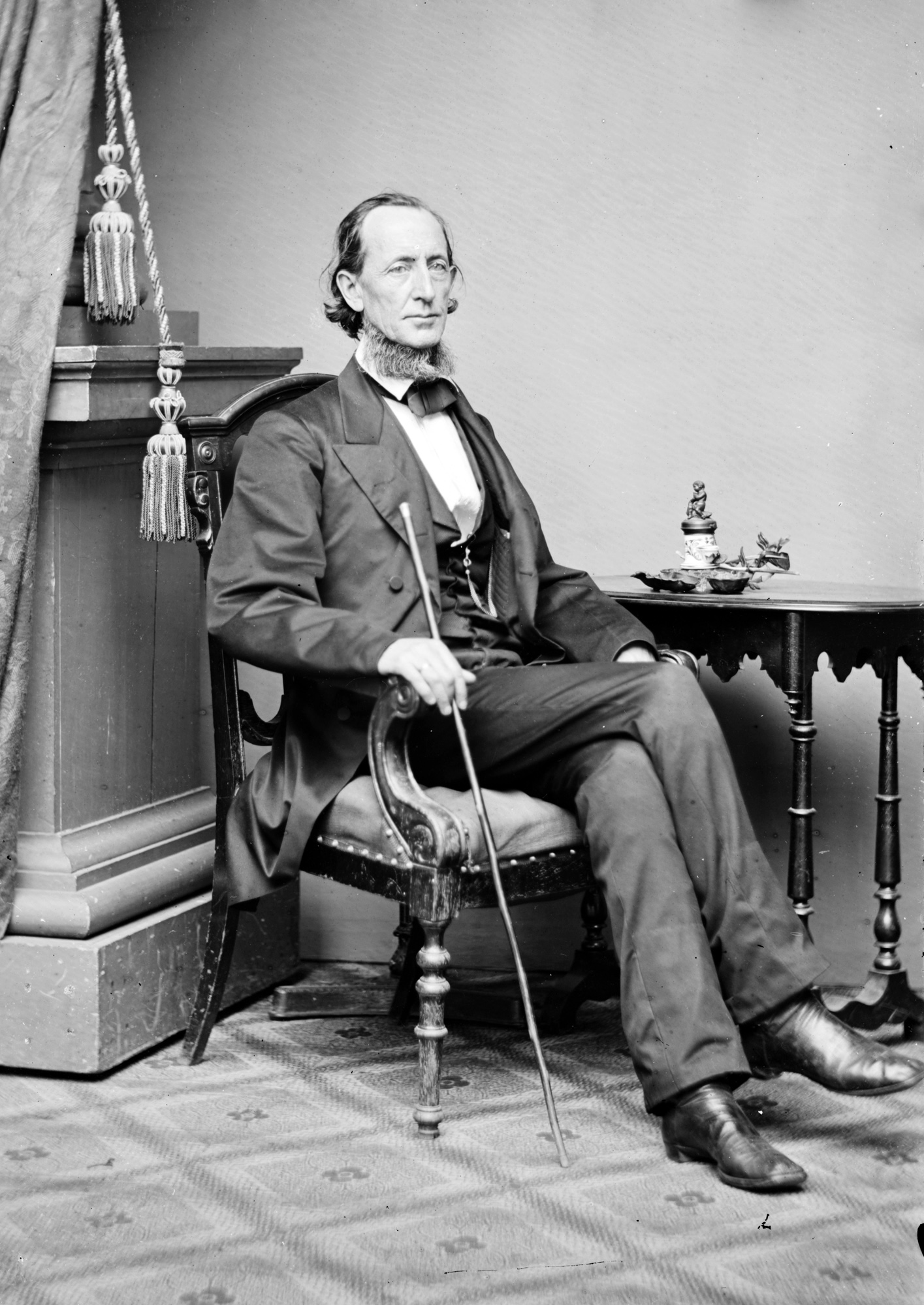 TITLE: Alfred O. P. Nicholson CALL NUMBER: LC-BH82- 232 [P&P] REPRODUCTION NUMBER: LC-DIG-cwpbh-00771 (b&w copy scan) No known restrictions on publication. MEDIUM: 1 negative : glass, wet collodion. CREATED/PUBLISHED: [between 1855 and 1865] NOTES: Title from unverified information on negative sleeve. Sen. From Tenn; Chief Justice of Supreme Court of Tenn. 1870-76. Forms part of Brady-Handy Photograph Collection (Library of Congress). FORMAT: Portrait photographs 1850-1870. Glass negatives 1850-1870. REPOSITORY: Library of Congress Prints and Photographs Division Washington, D.C. 20540 USA DIGITAL ID: (b&w scan) cwpbh 00771